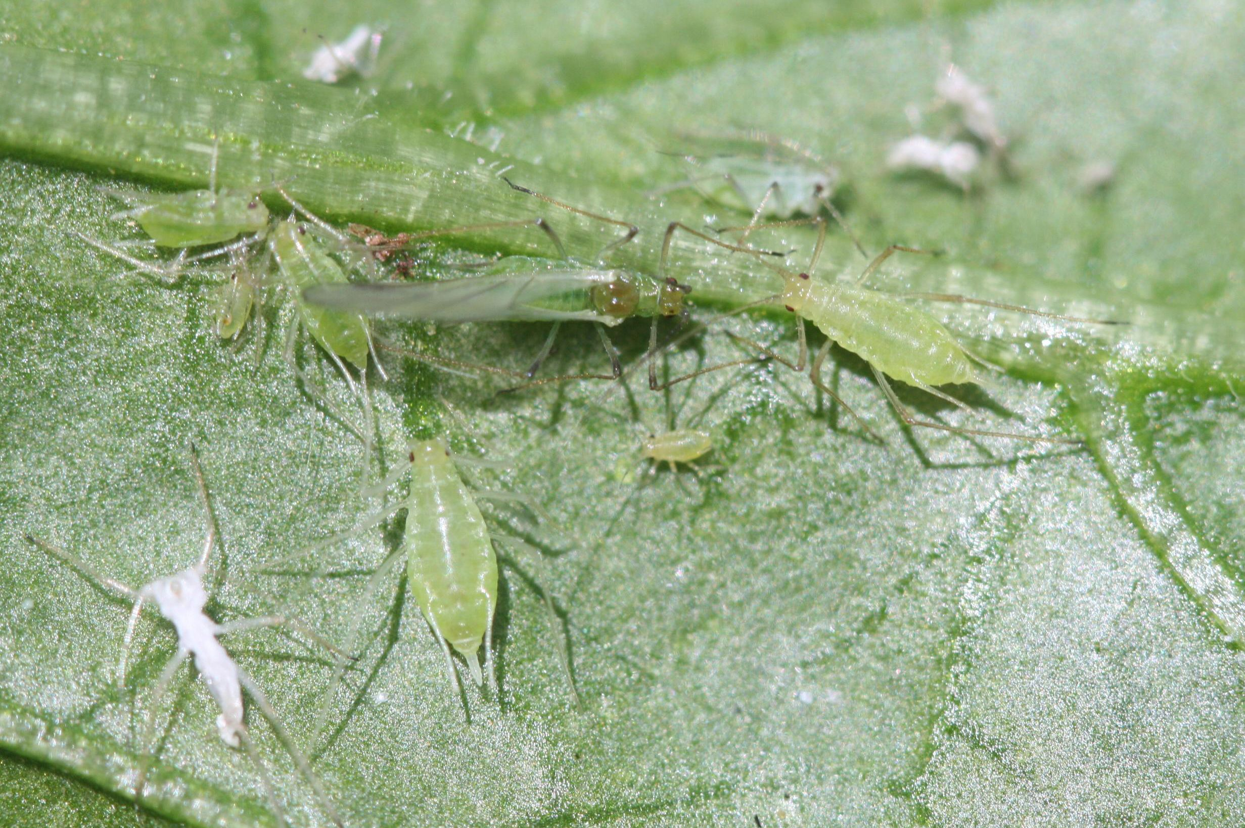 Macrosiphum euphorbiae, potato aphid, alatae, apterae and cast skins.